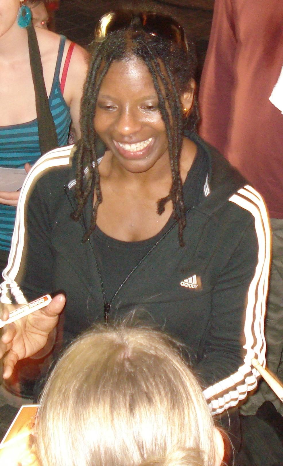 The Dresden EVA-2008-Festival. Judy Baley.